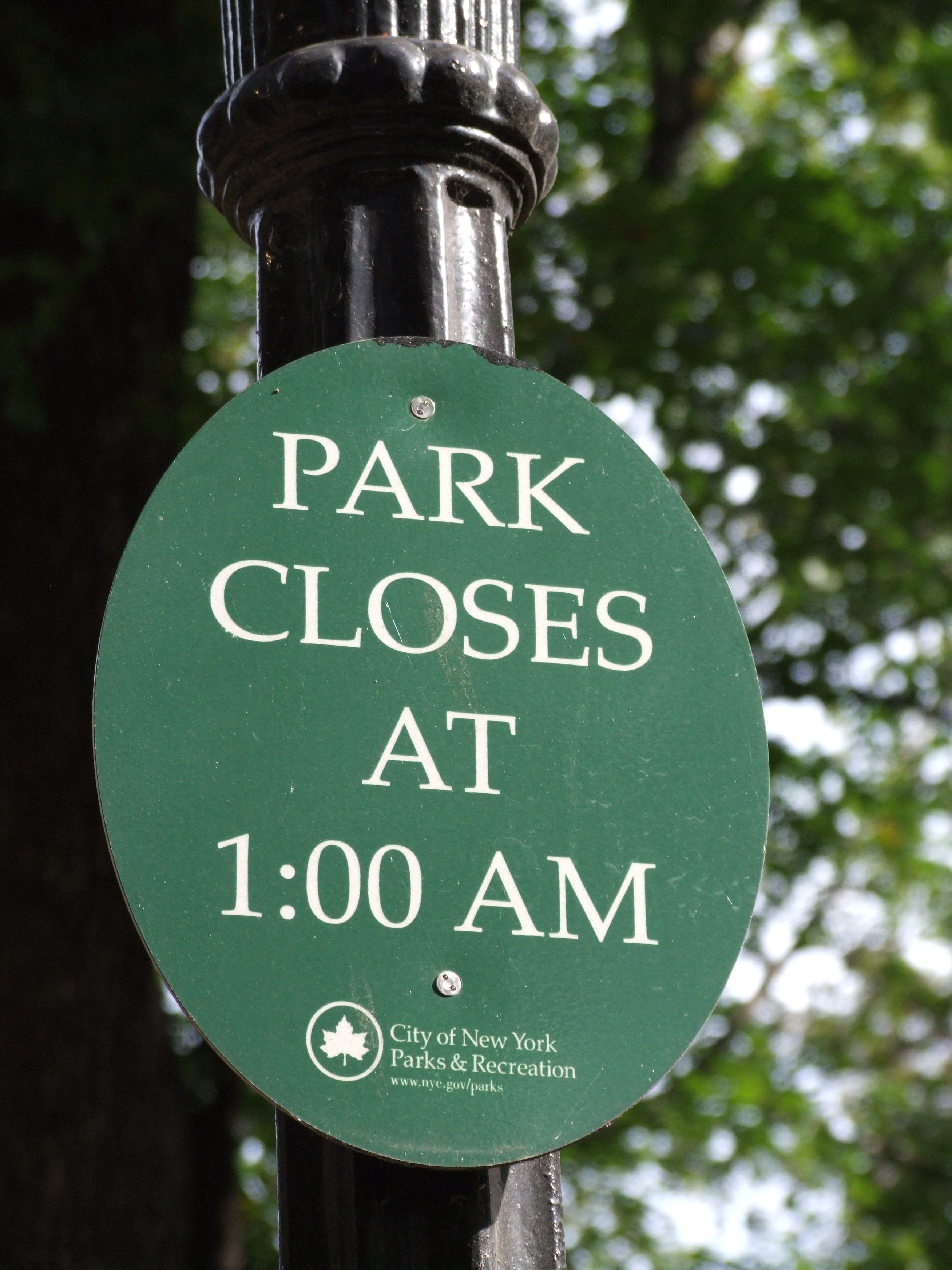 Park Close Time Sign in Central Park, NYC.